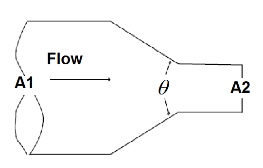 ENTRANCE TO PIPE WITH OPEN ANGLE